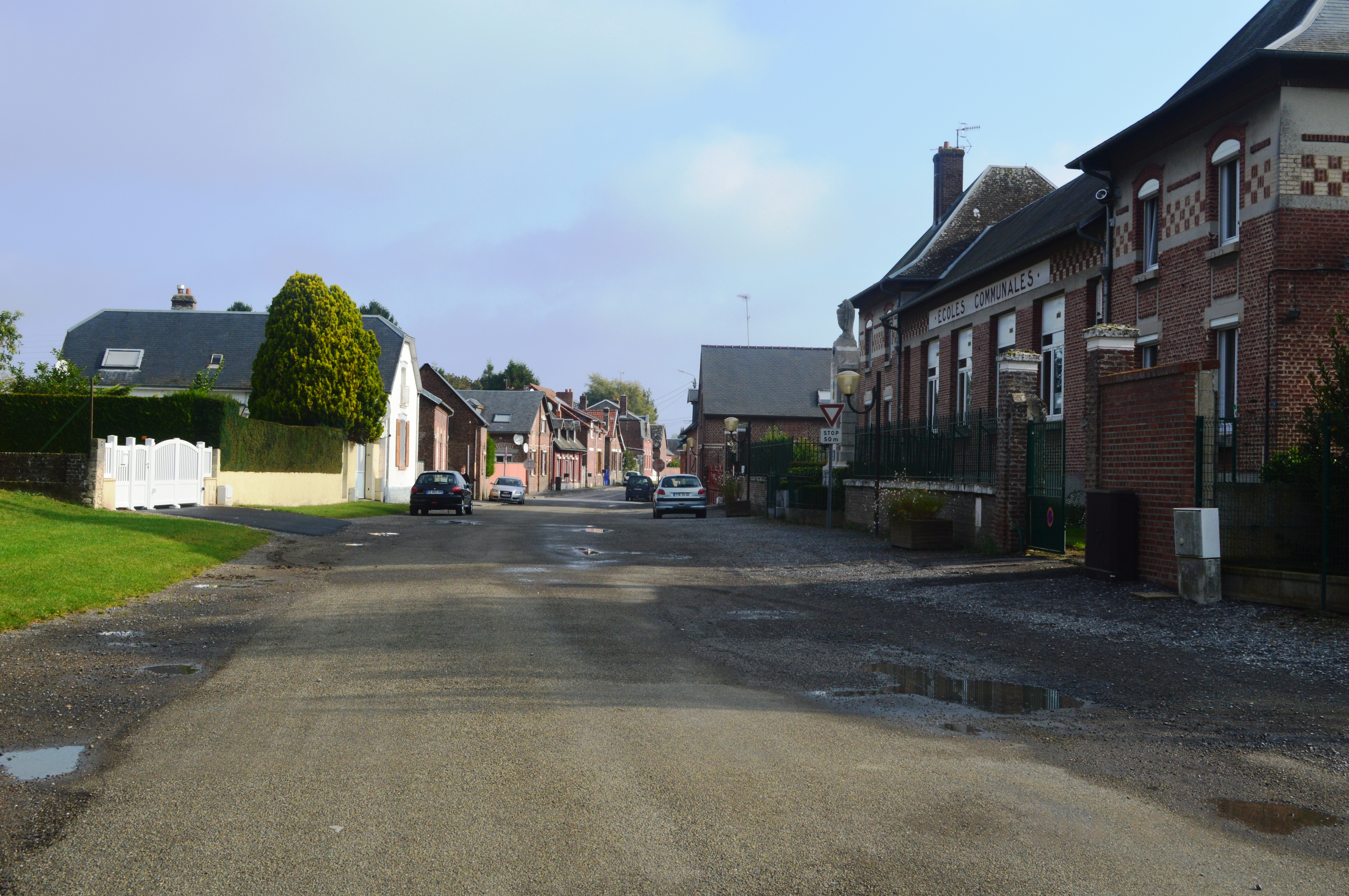 A street in Alaincourt